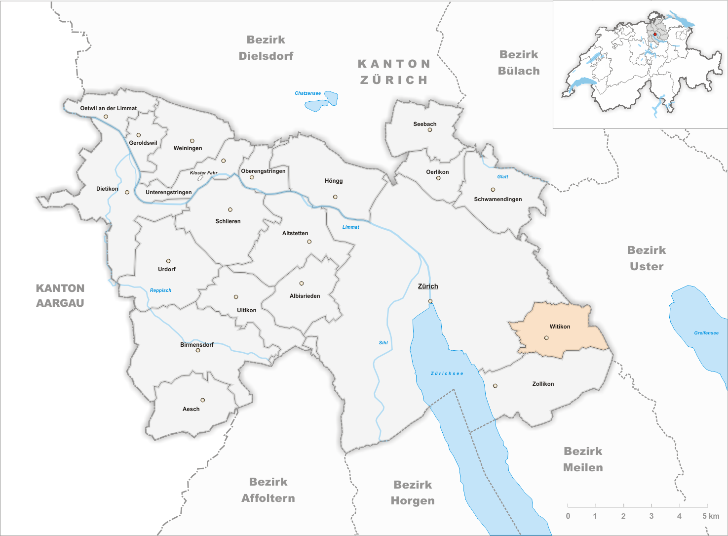 Municipality Witikon